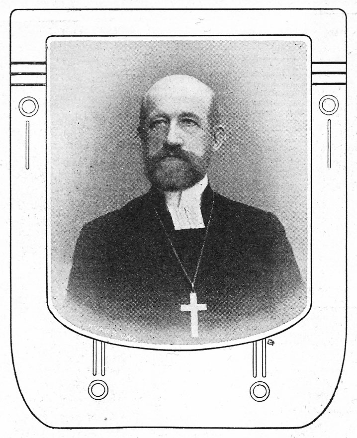 Swedish bishop Edvard Herman Rodhe (1845-1932).